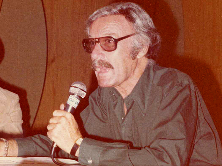 Stan Lee speaking at a convention circa 1980.